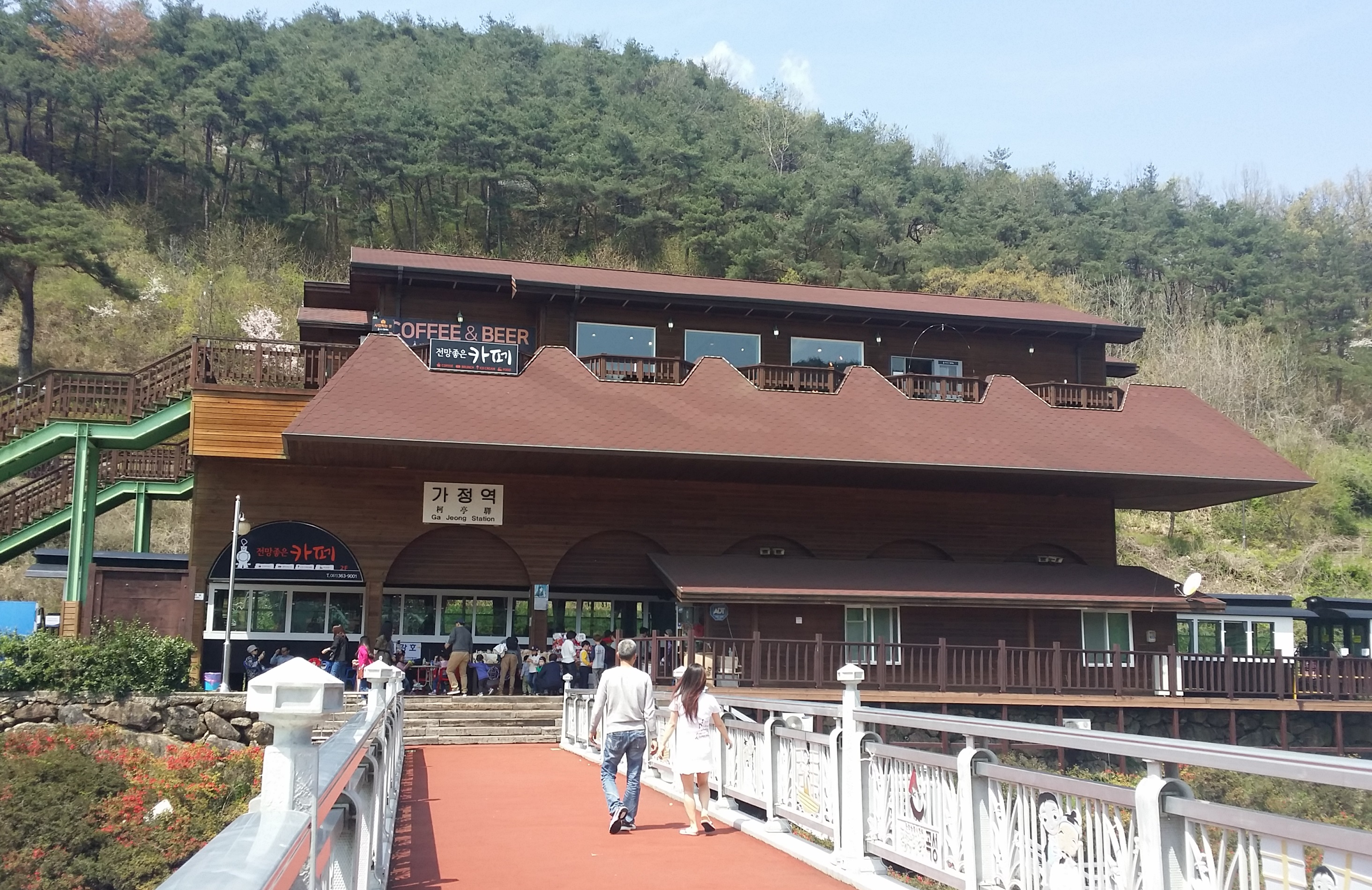 Gajeong Station, Gokseong, South Korea